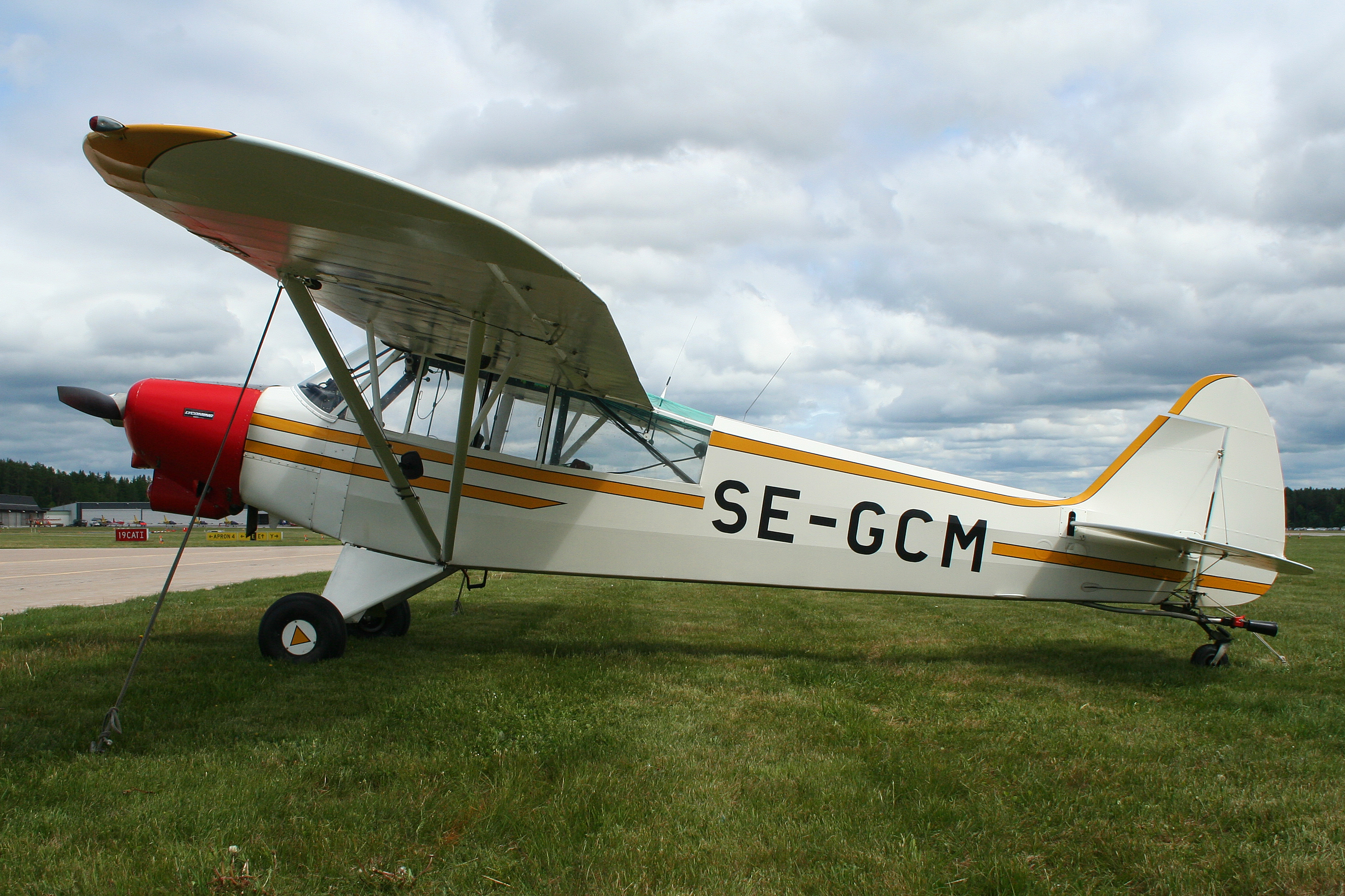 Parked on a grass flightline, this 1963 Super Cub was at Malmen as a glider tug. High winds soon cancelled that idea though! It is an ex Swedish military aircraft, serving as a Fpl51B 'Fv51247'. It is now operated by the Linkoping Gliding Club. msn 18-7920. 2012 Malmen Airshow, Sweden. 03-06-2012